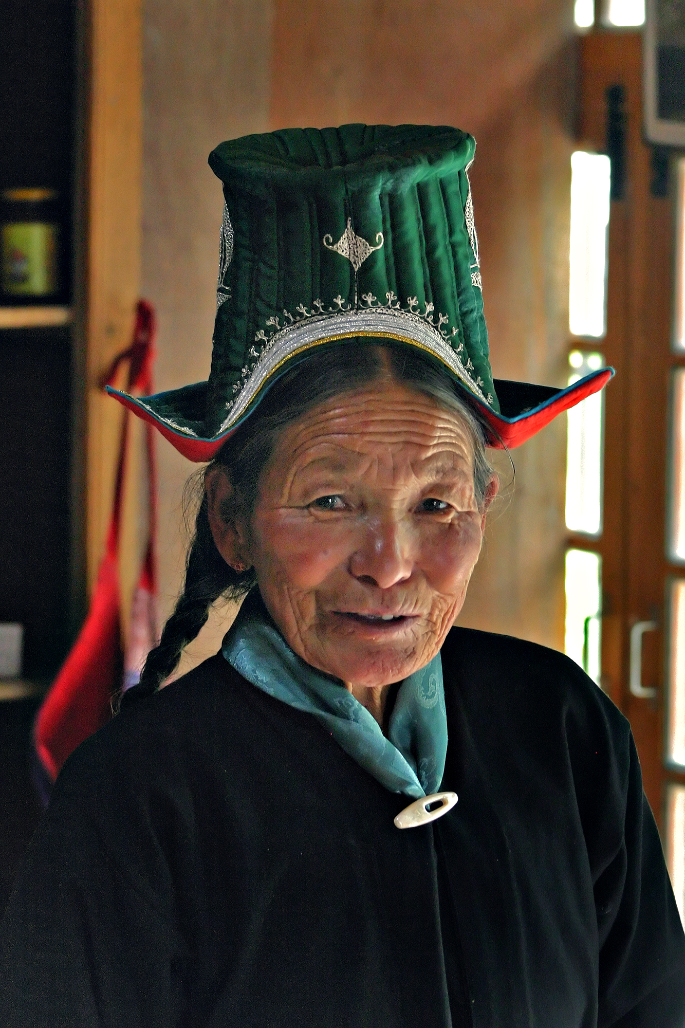 A woman from Ladakh province, Jammu and Kashmir, India. She wears a traditional Ladakhi dress and hat.